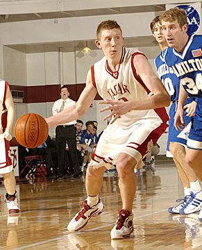 Basketball